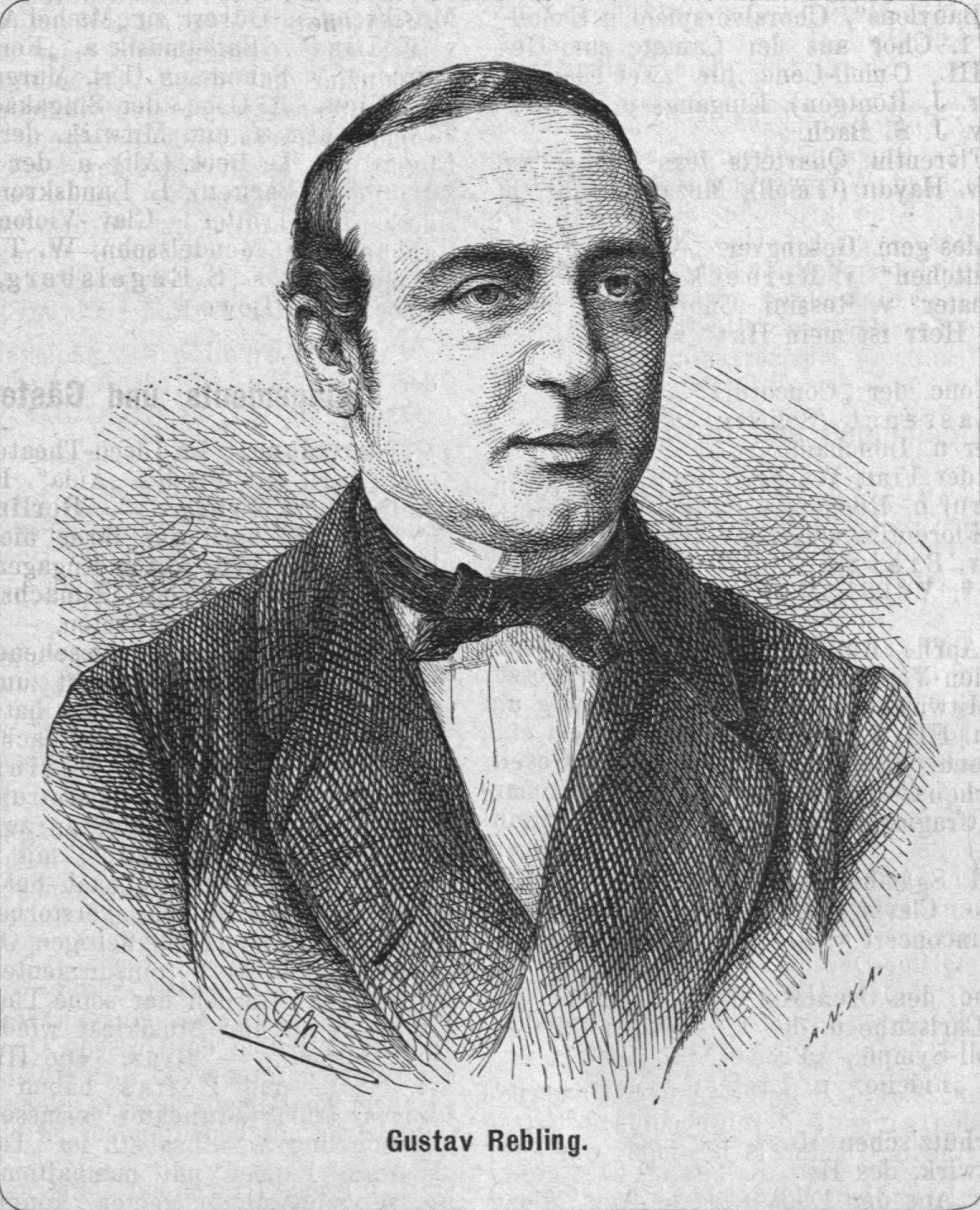 Picture of Gustav Rebling, 1821–1902